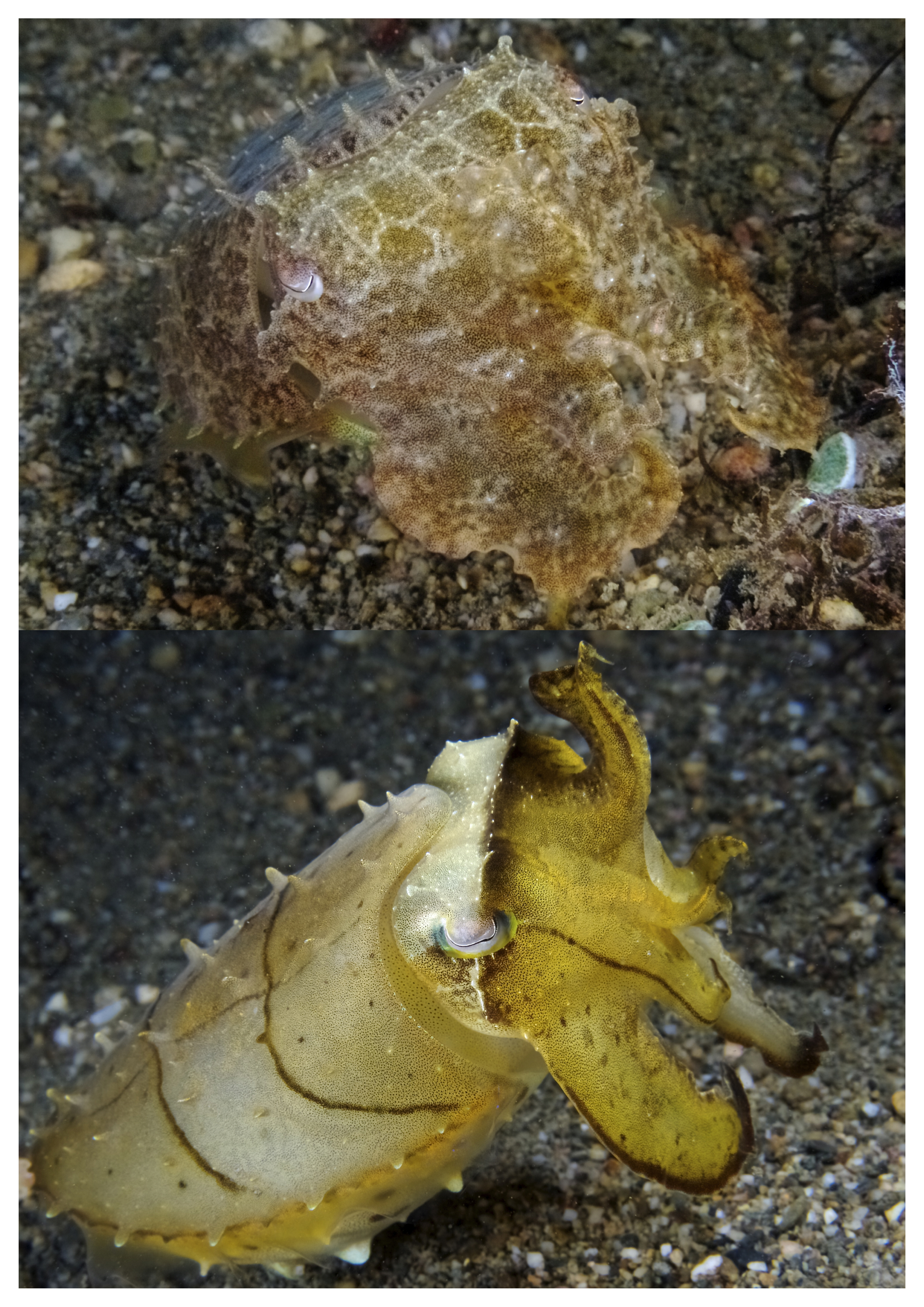 Cuttlefish changing color. These pictures of the same individual were taken only a few seconds apart.